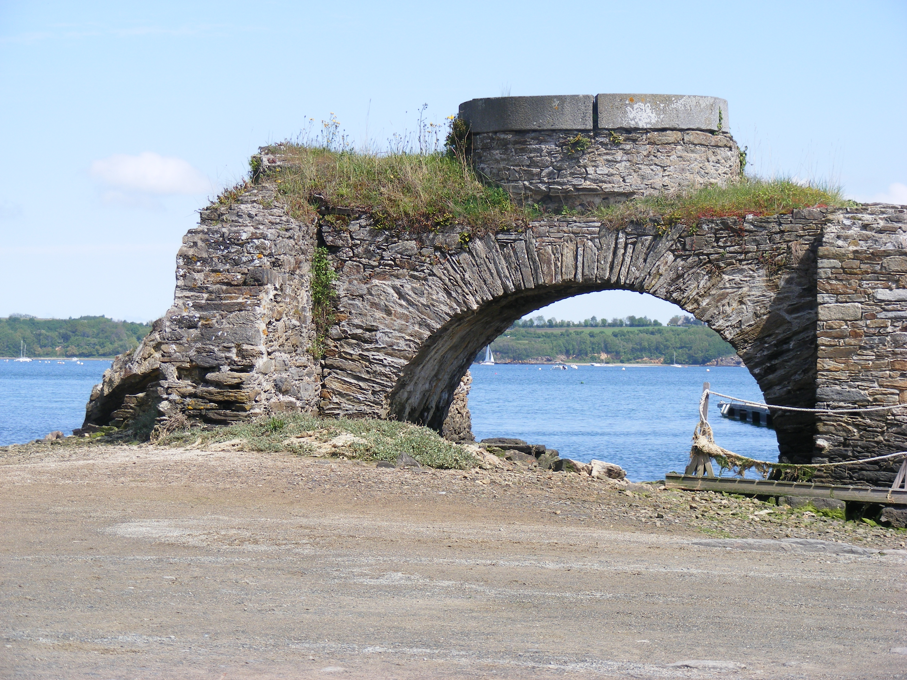 Description Photo prise au bout du chemin le Grand val Date01/05/2009SourceOwn work by the original uploaderAuthorPlacide59 Photo prise au bout du chemin le Grand val